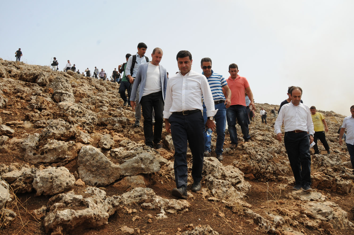 HDP supporters being stopped from walking to Cizre, where there was a curfew in place for 8 days.